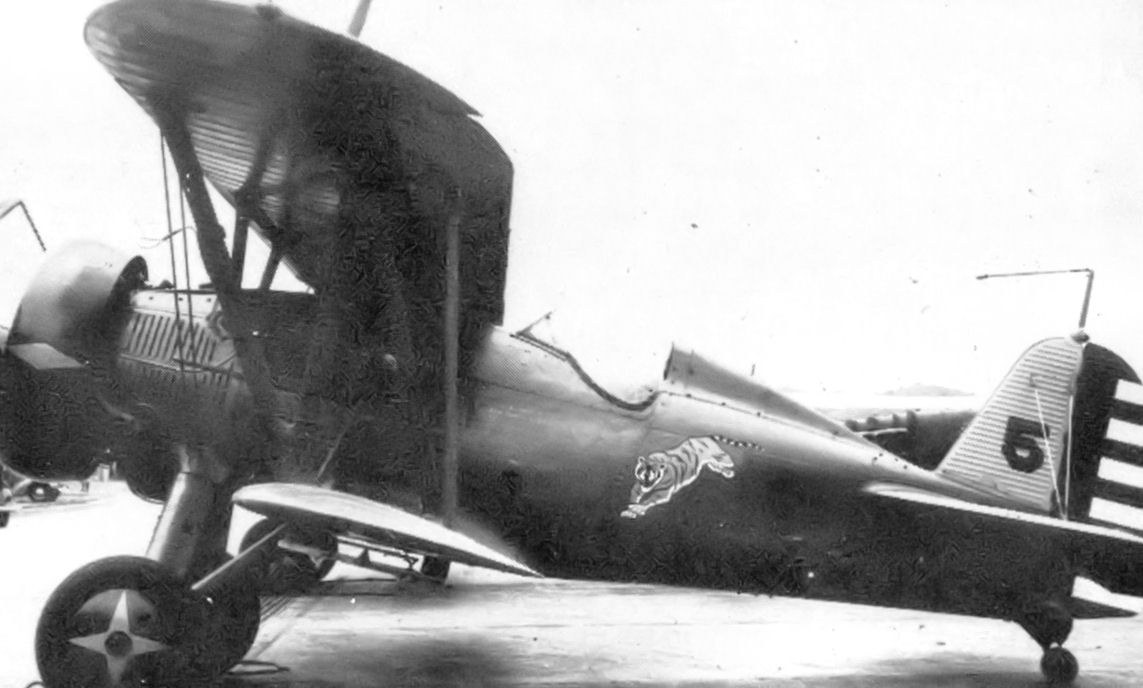 24th Pursuit Squadron Boeing P-12E about 1933 at Albrook Field, Canal Zone. Probably a 1932 Serial, Squadron #5. Note squadron emblem prominent on fuselage.